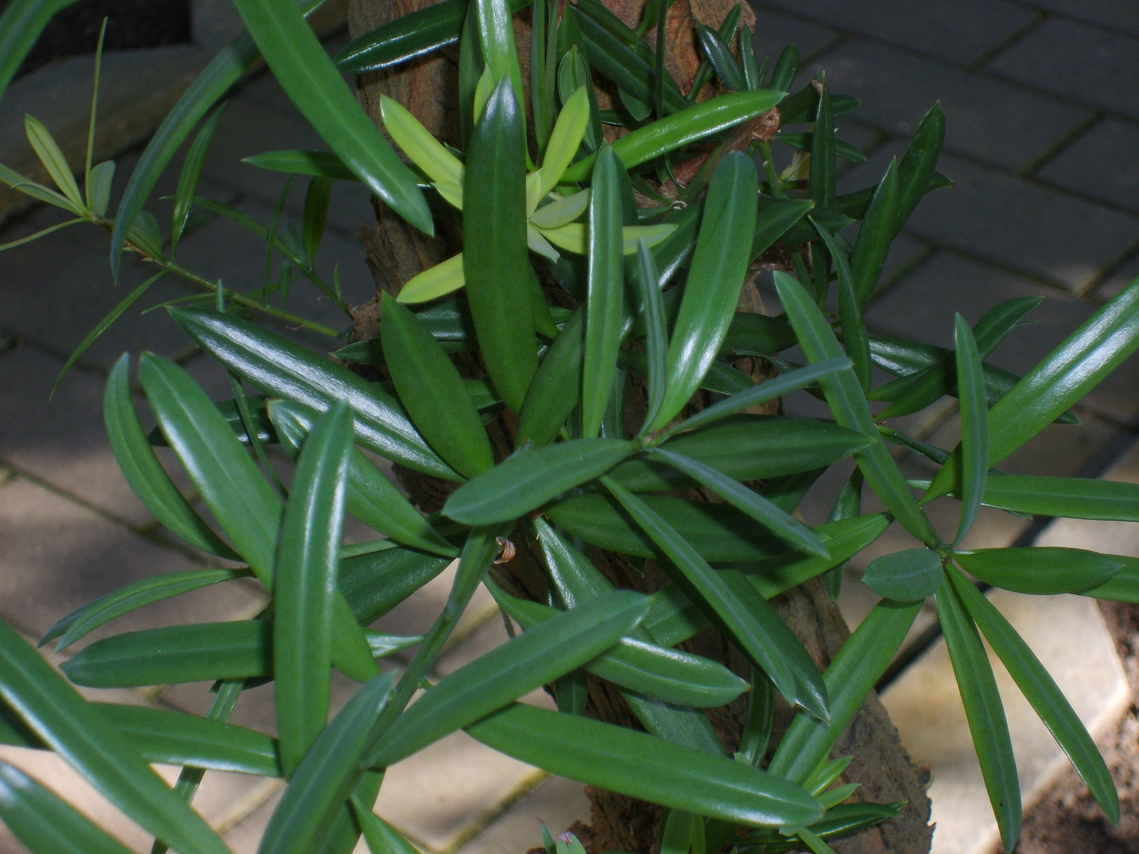 Copenhagen Botanical Gardens, Podocarpus latifolius, foliage close-up